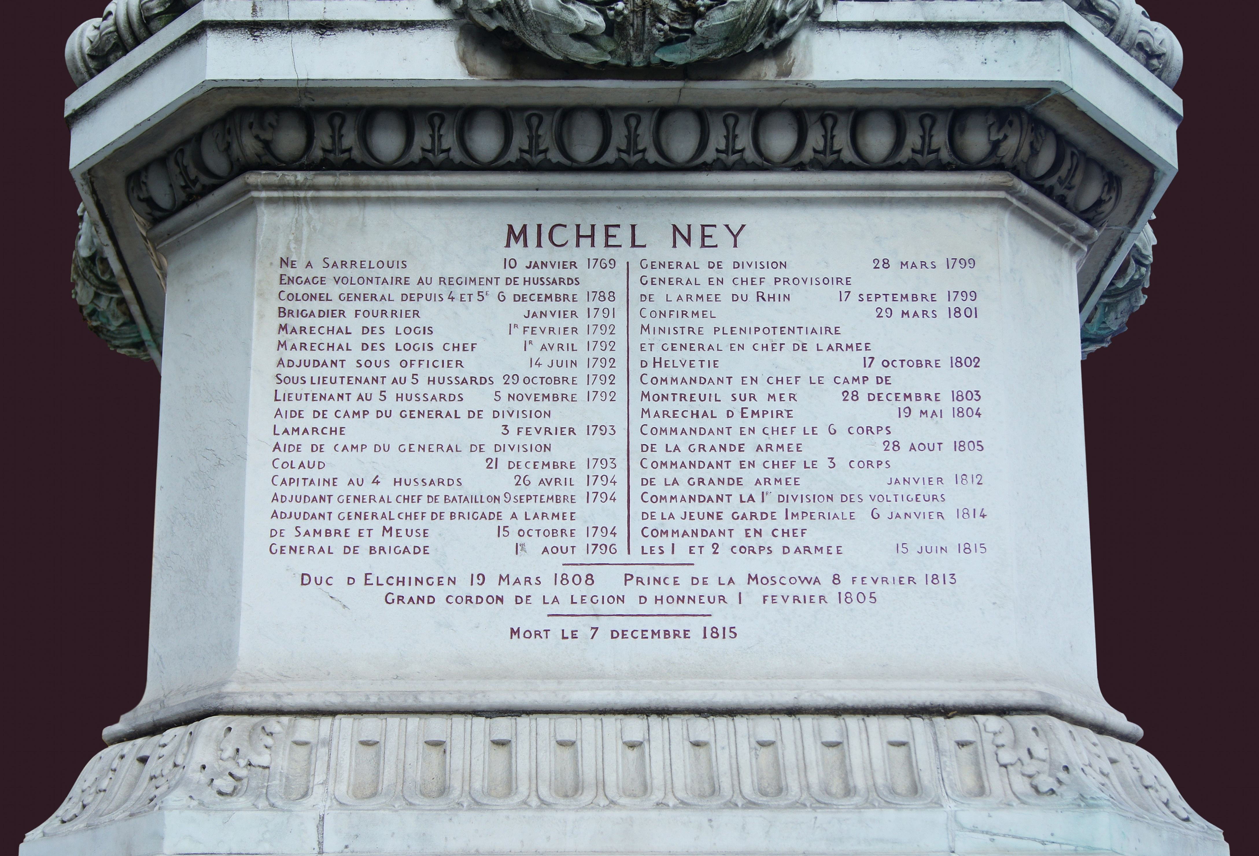 one of the four faces of the pedestal of the statue of Marshall Michel Ney (The Bravest of the Brave) in Paris, relating his military career during the Revolution and Napoleonic wars.